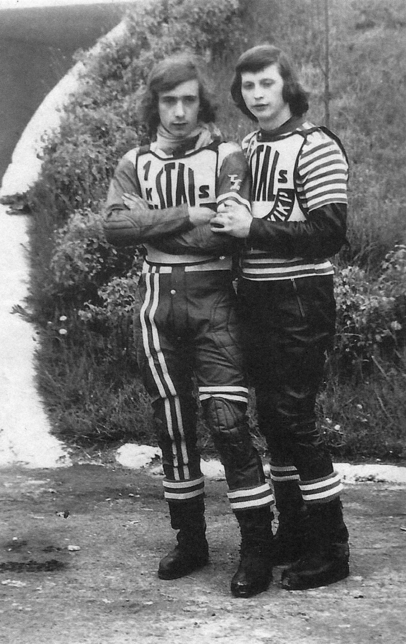 Plech i Nowak starting in "Stal" Gorzów Wielkopolski.